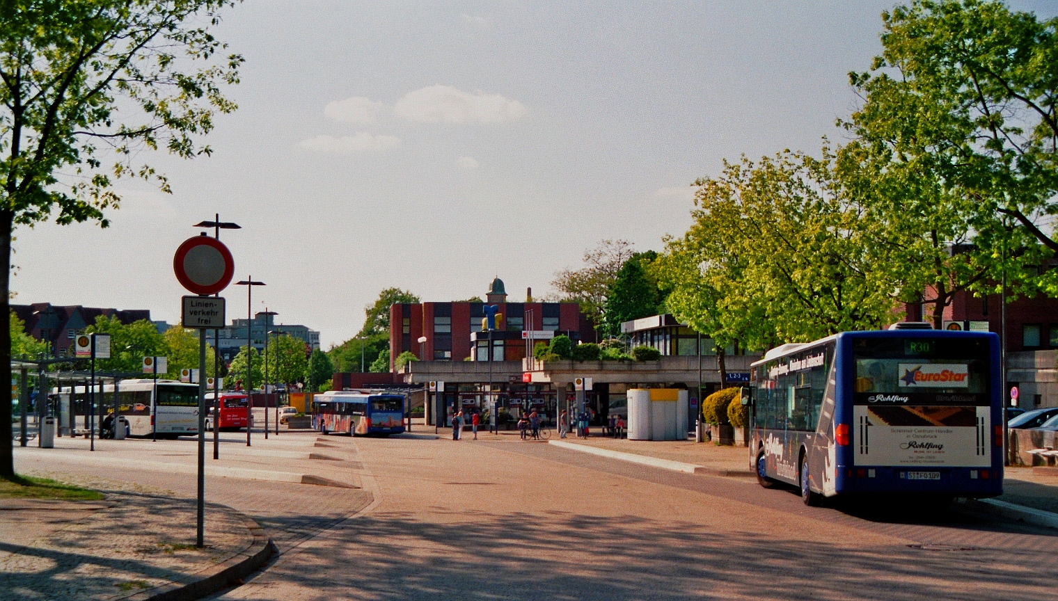 Bus station at the train station of Ibbenbüren, Kreis Steinfurt, North Rhine-Westphalia, Germany.